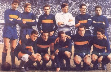 Boca Juniors, 1962 champion in Argentine football. (stand): Rattín, Marzolini, Silvero, Errea, Orlando, Simeone. (seated): Nardiello, Menéndez, Valentim, Grillo, Alberto M. González.